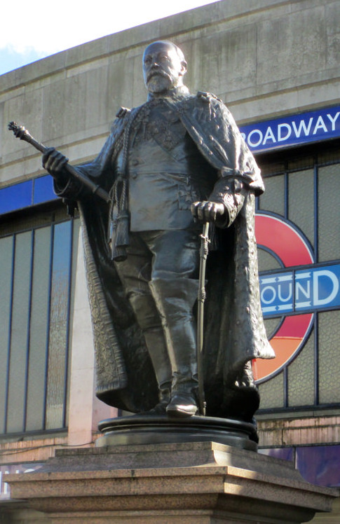 Edward VII at Tooting